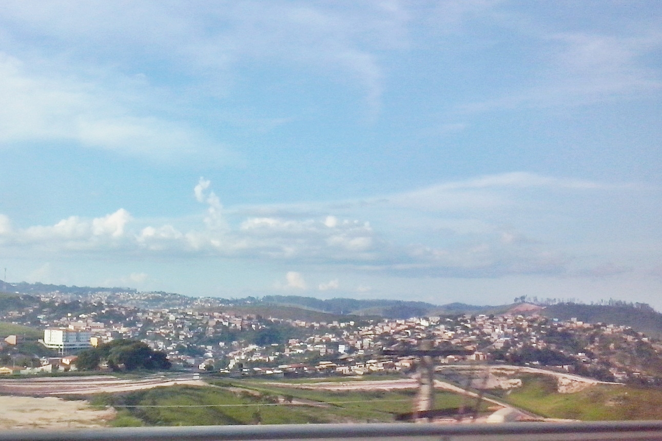 Partial view of Itabira, Minas Gerais, Brazil, seen from of the MG-434 road street.